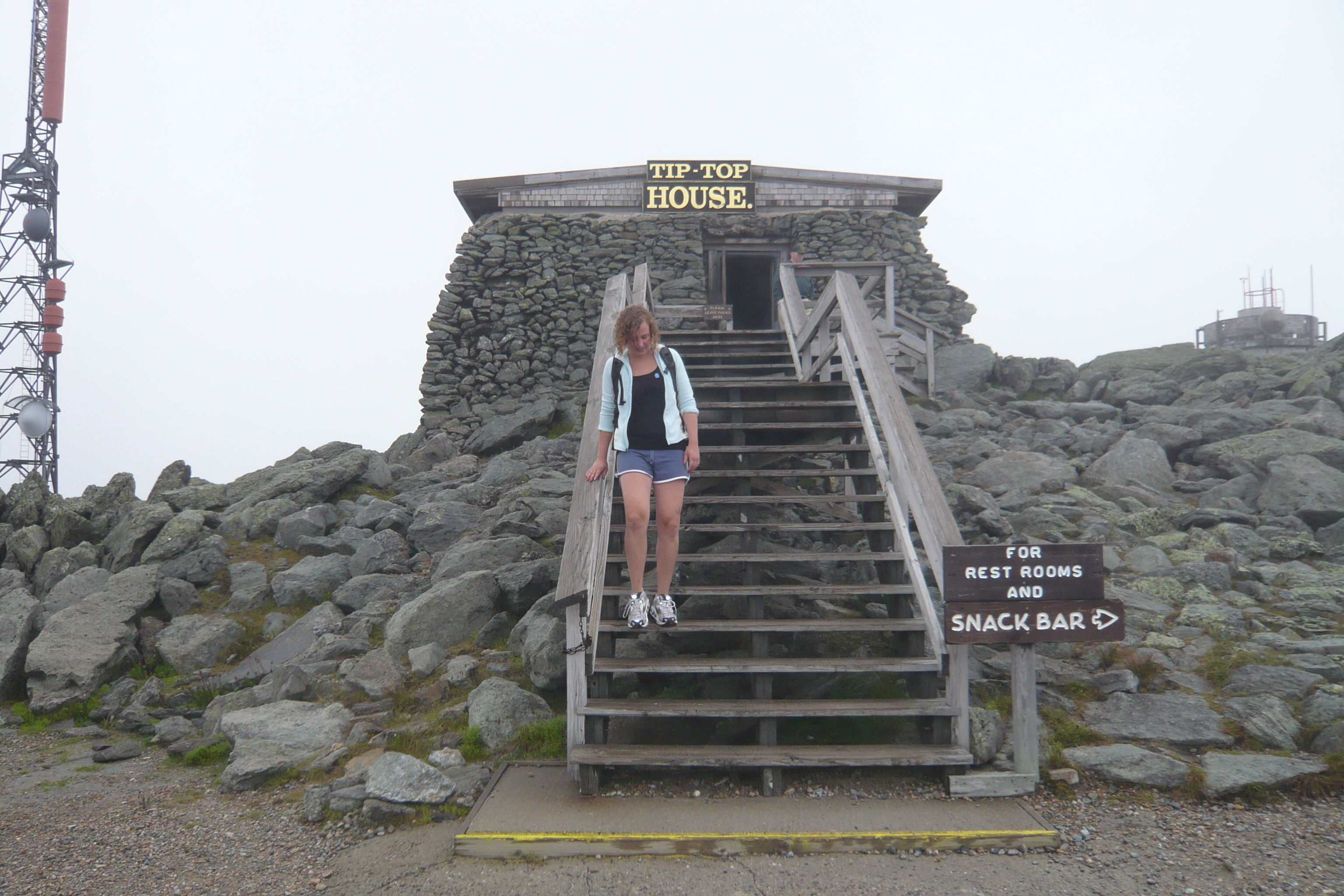 Tip Top House, the earliest summit building on Mt. Washington, New Hampshire, now surrounded by parking lots and other buildings for use by the weather station, the Cog railway, and the general tourist public that drive up the private road for the view.